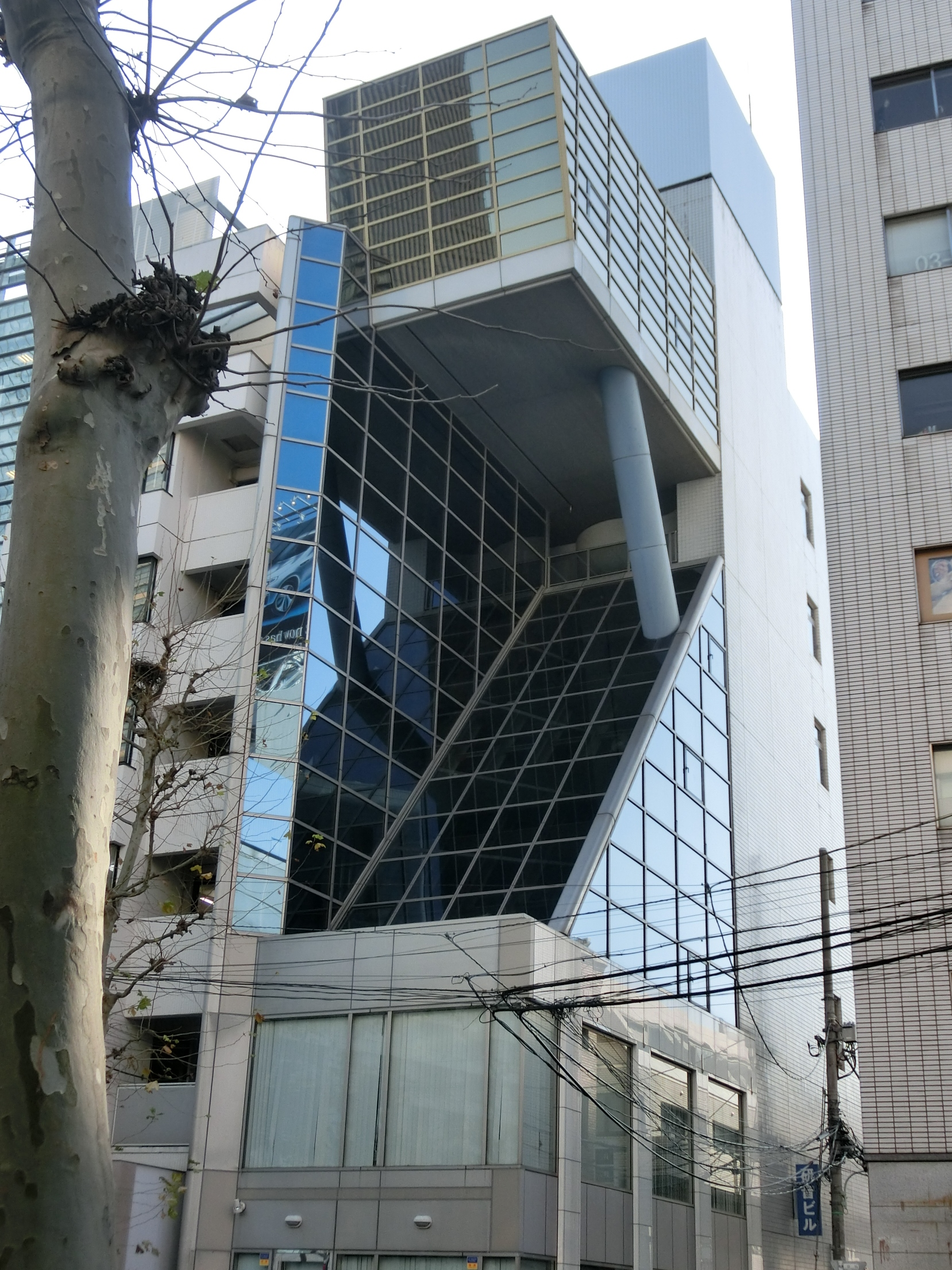 Kenon Head Office